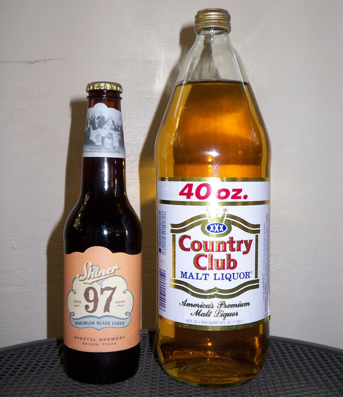 Comparison of a regular 12oz longneck beer to a 40oz malt liquor.